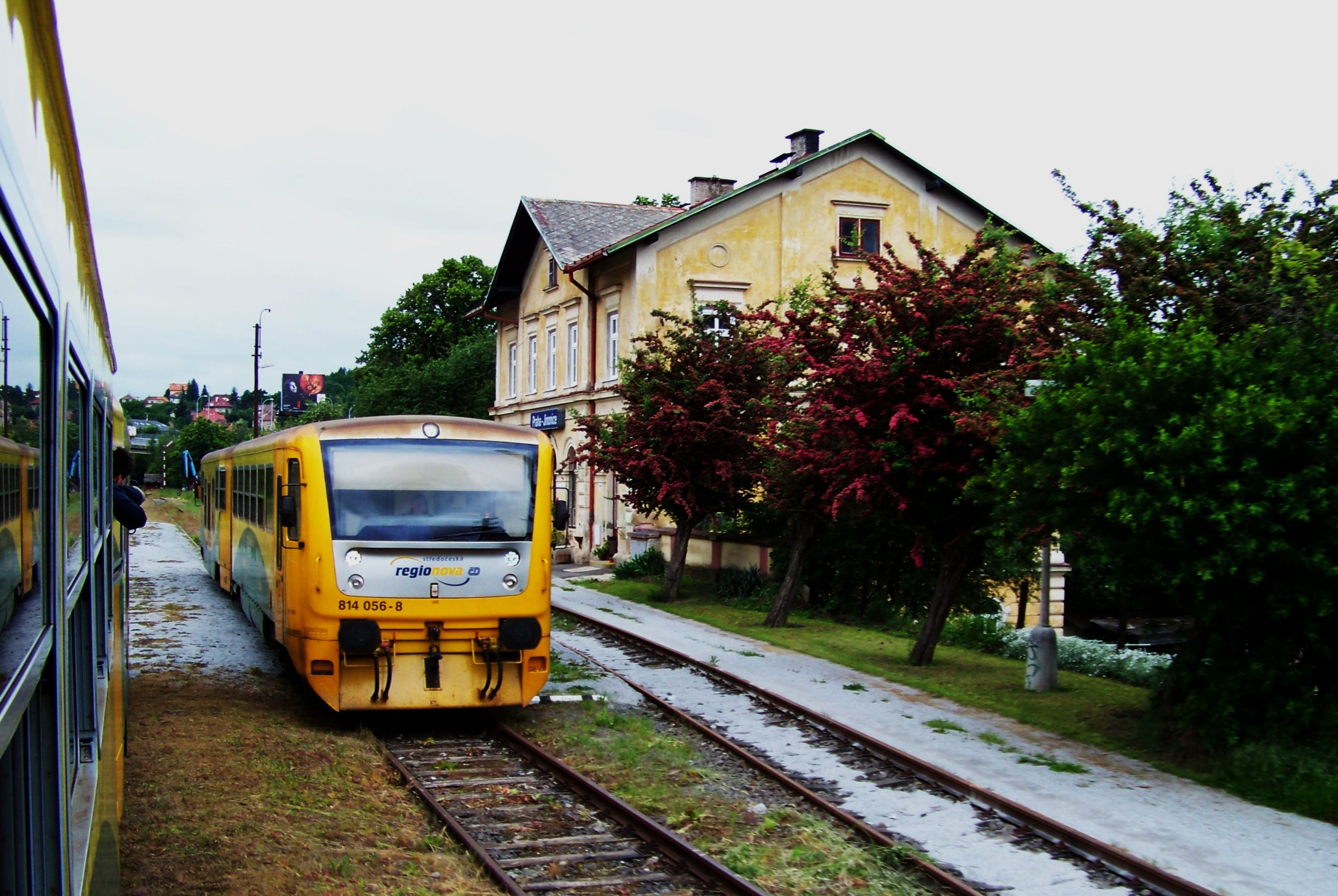 Radlice, Prague, the Czech Republic. Train station Praha-Jinonice.